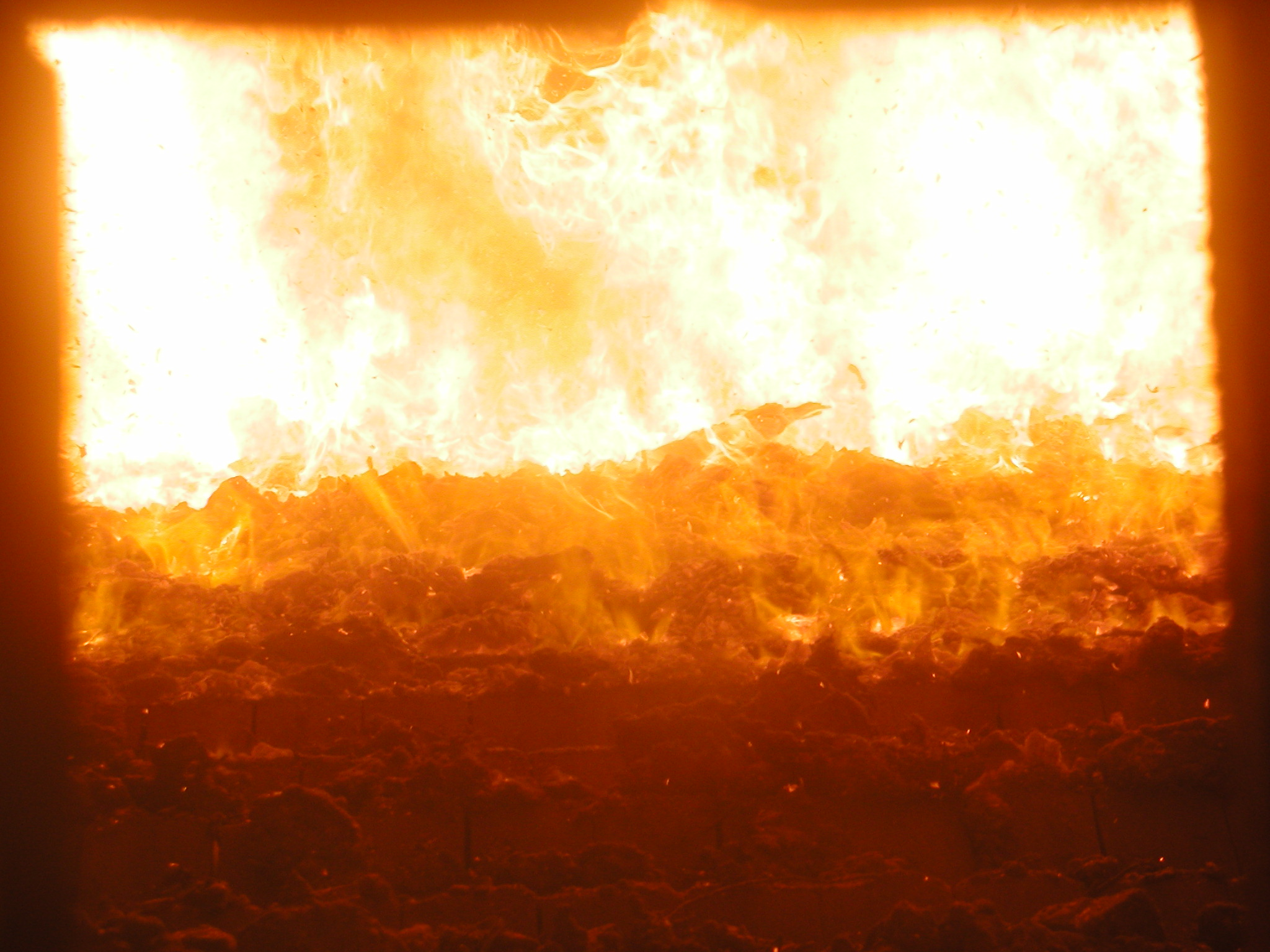 View into a wood-fired reziprocating grate stoker